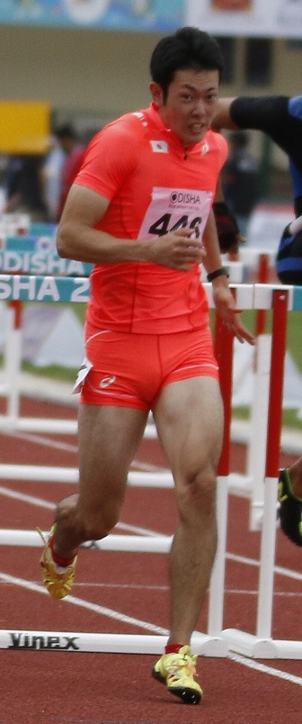 Athletes during 22nd Asian Athletics Championships in Bhubaneswar.